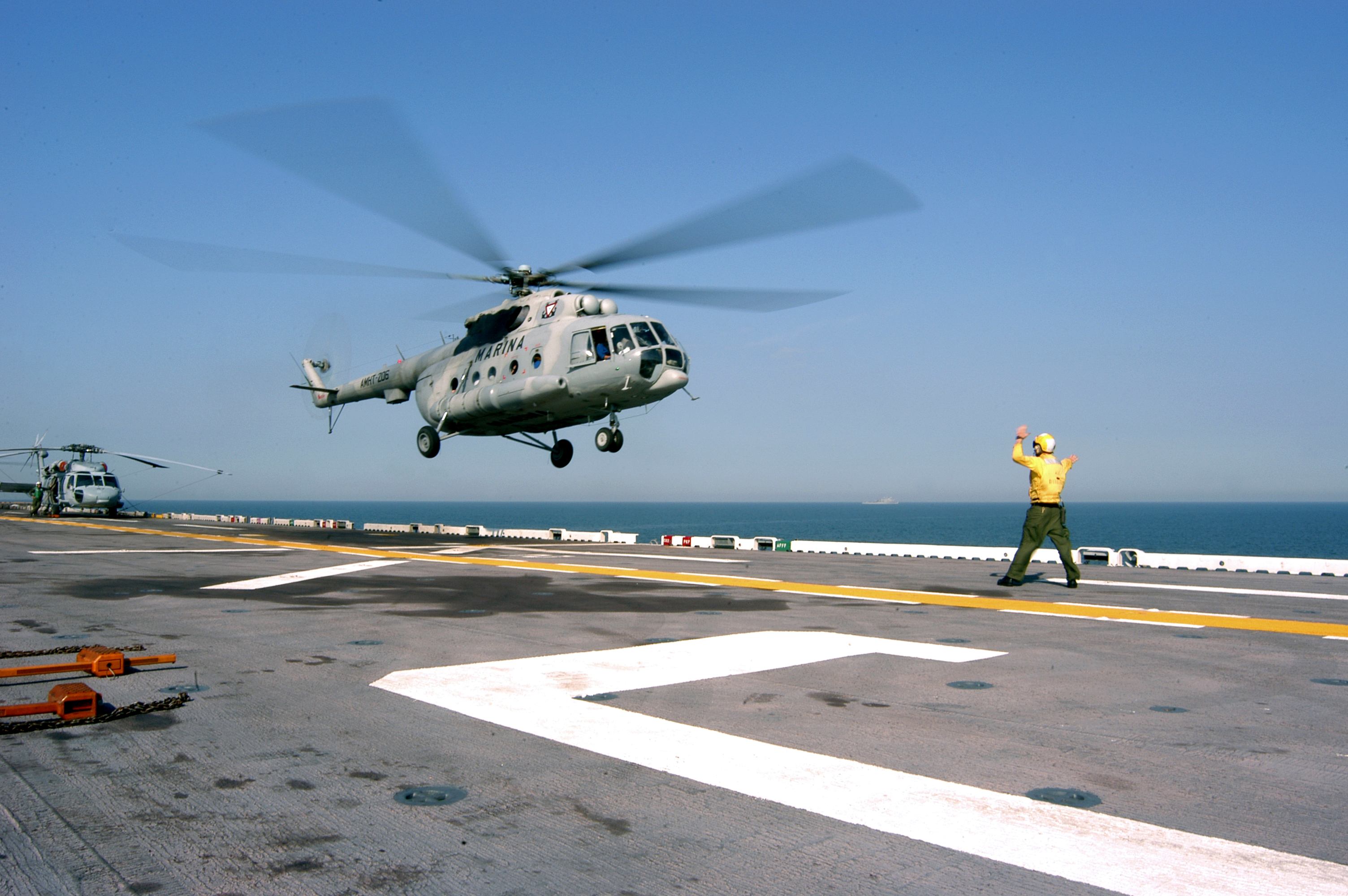 A Mexican Navy Mi-8 helicopter stands by for passengers on the flight deck aboard the amphibious assault ship USS Bataan (LHD 5), off the coast of Mississippi.